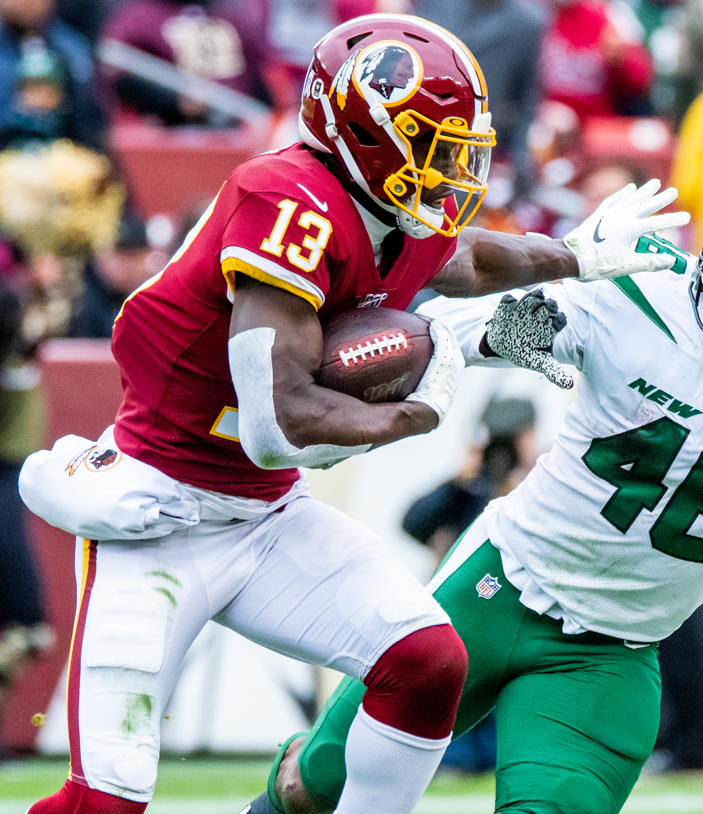 In 2019